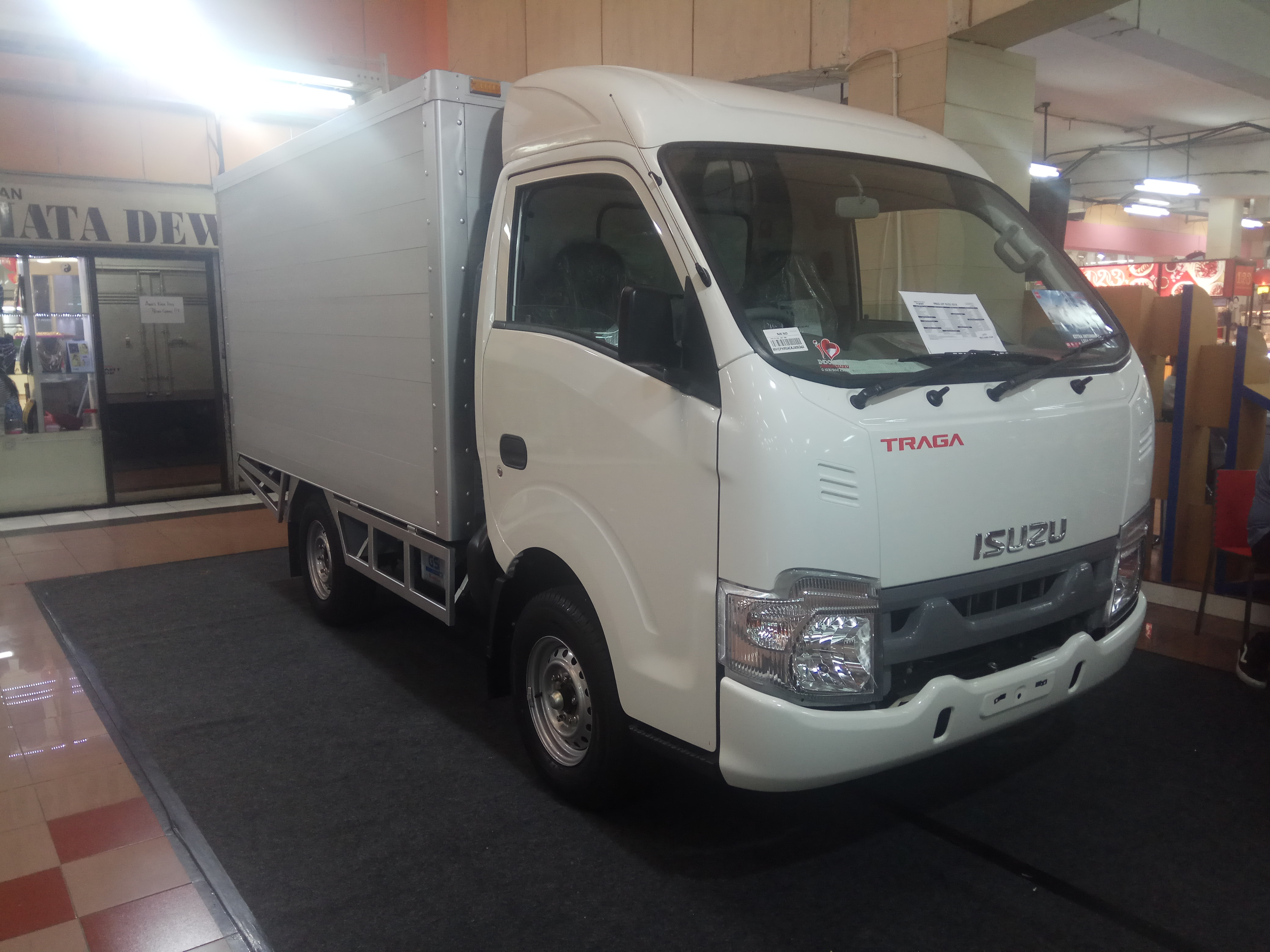 2019 Isuzu Traga Box photographed at Pasar Atom in North Surabaya, East Java, Indonesia.